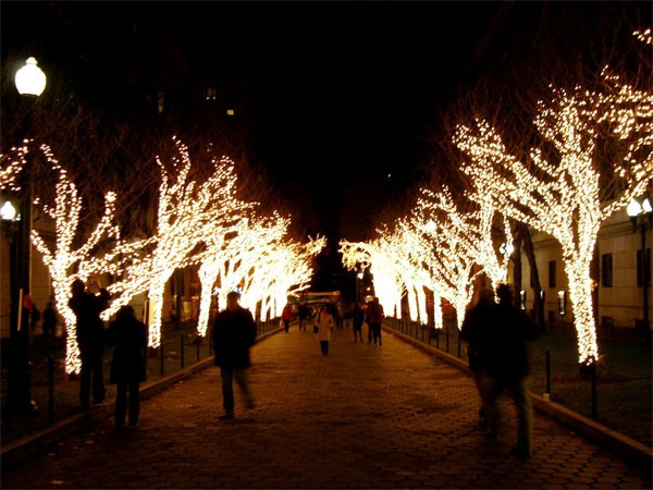 Source: French Wikipedia (columbia2.jpg)